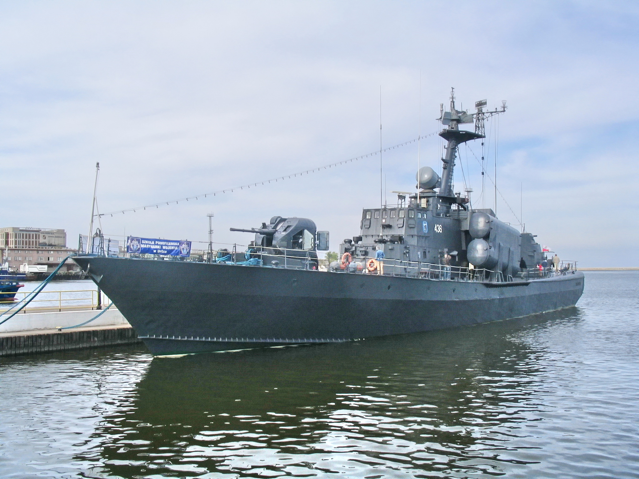 ORP Metalowiec on show to the general public in Gdynia, the banner reads "Navy school for non-commissioned officers in Ustka".